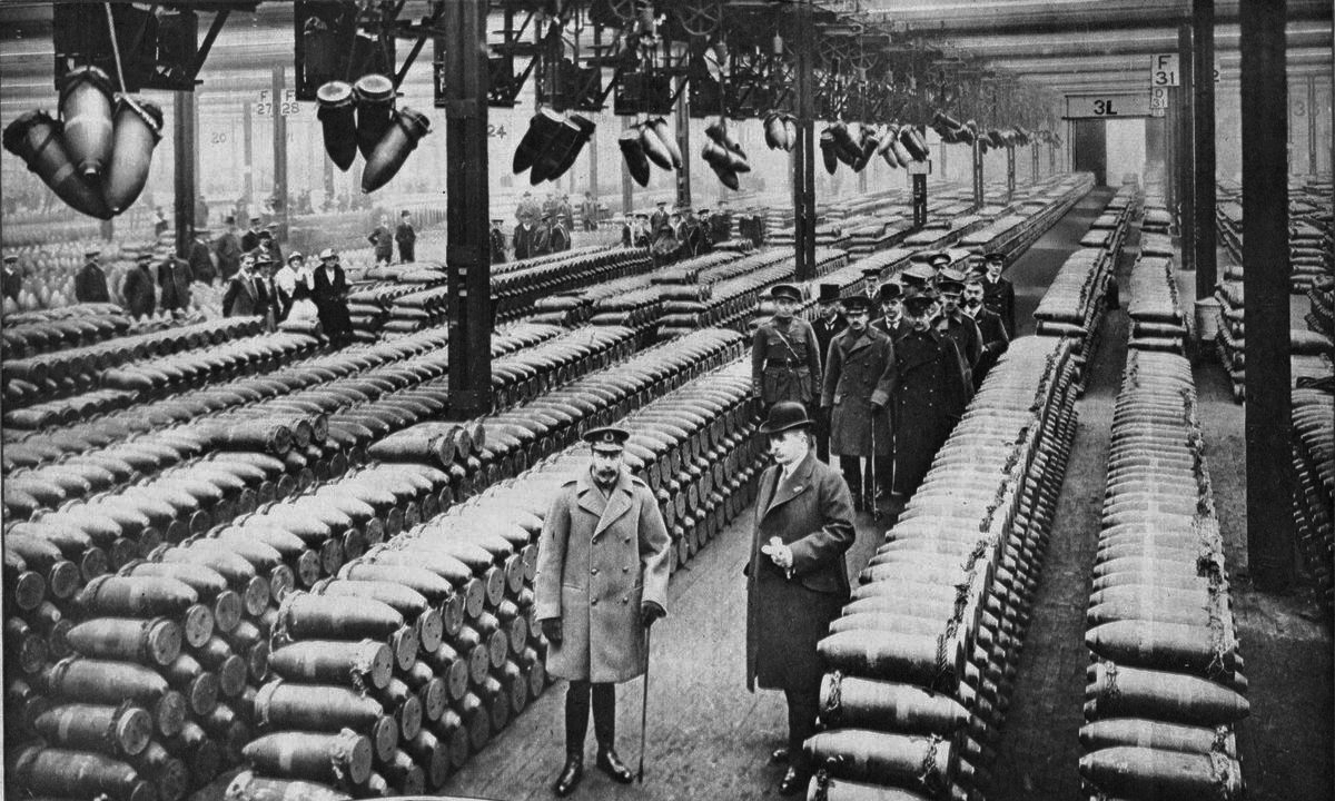 King George V and a group of officials inspect a British munitions factory in 1917.